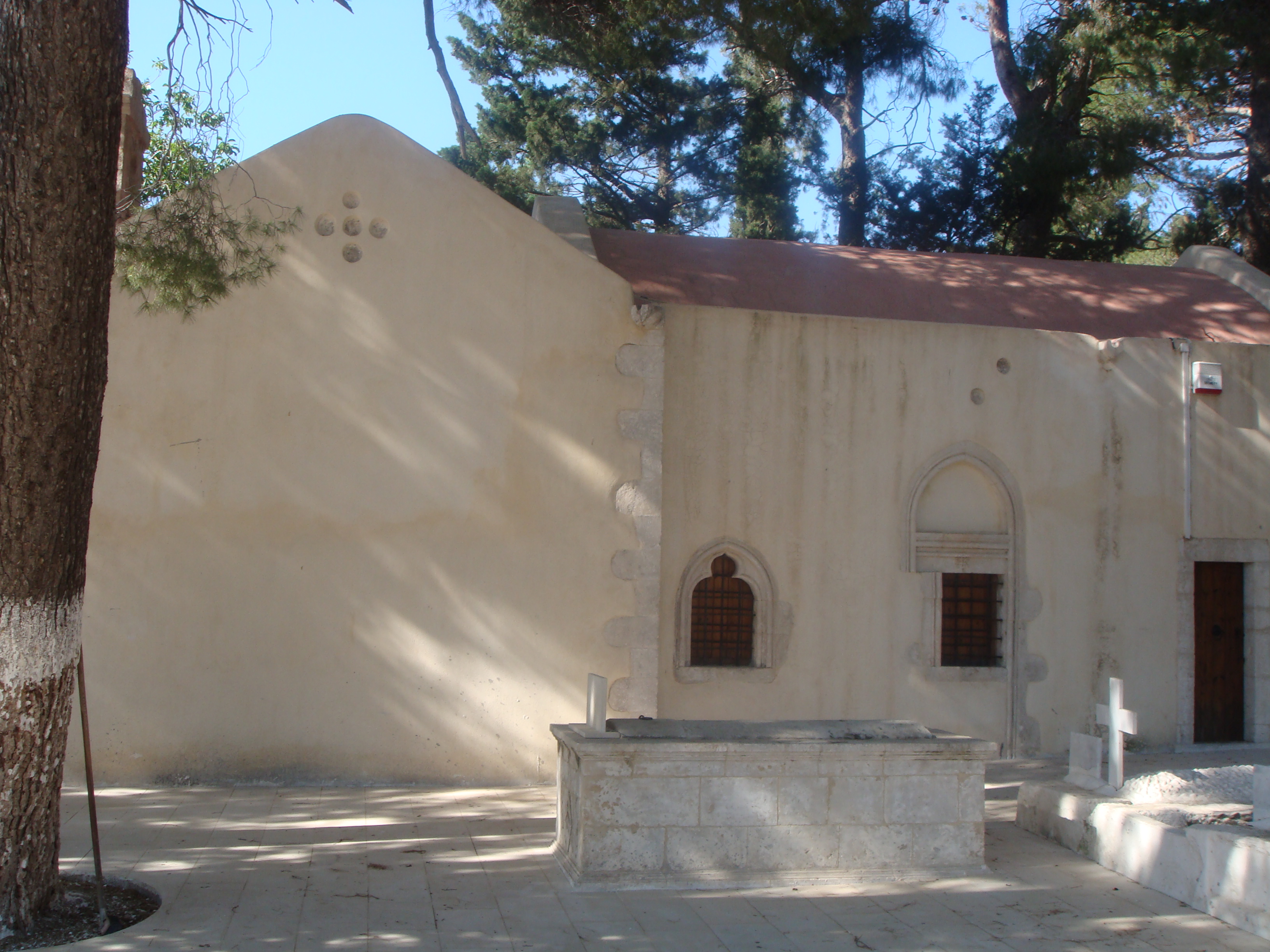 Monastery of Agia Moni, in Viannos, Iraklion prefecture.